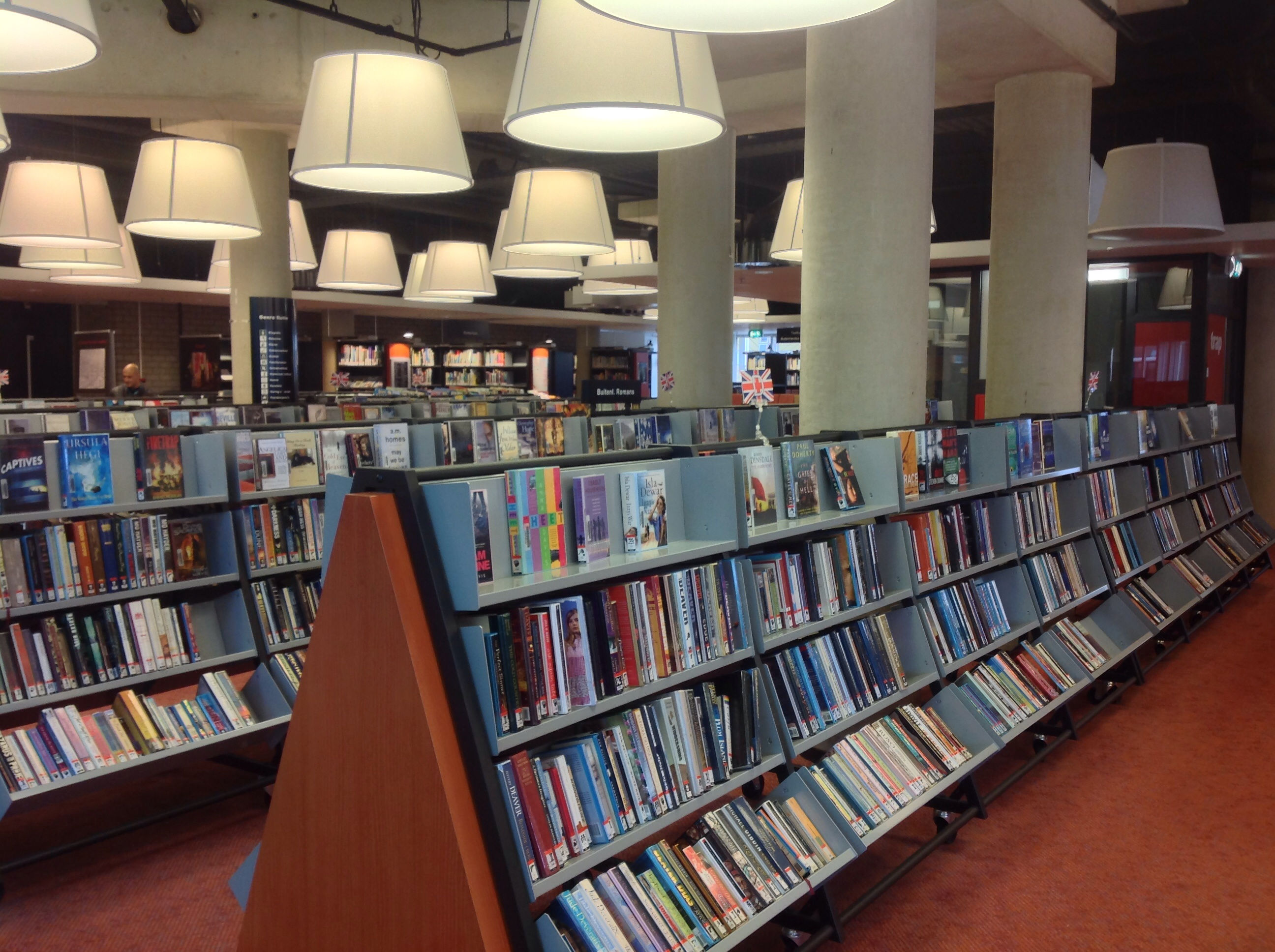 A library in Rotterdam.